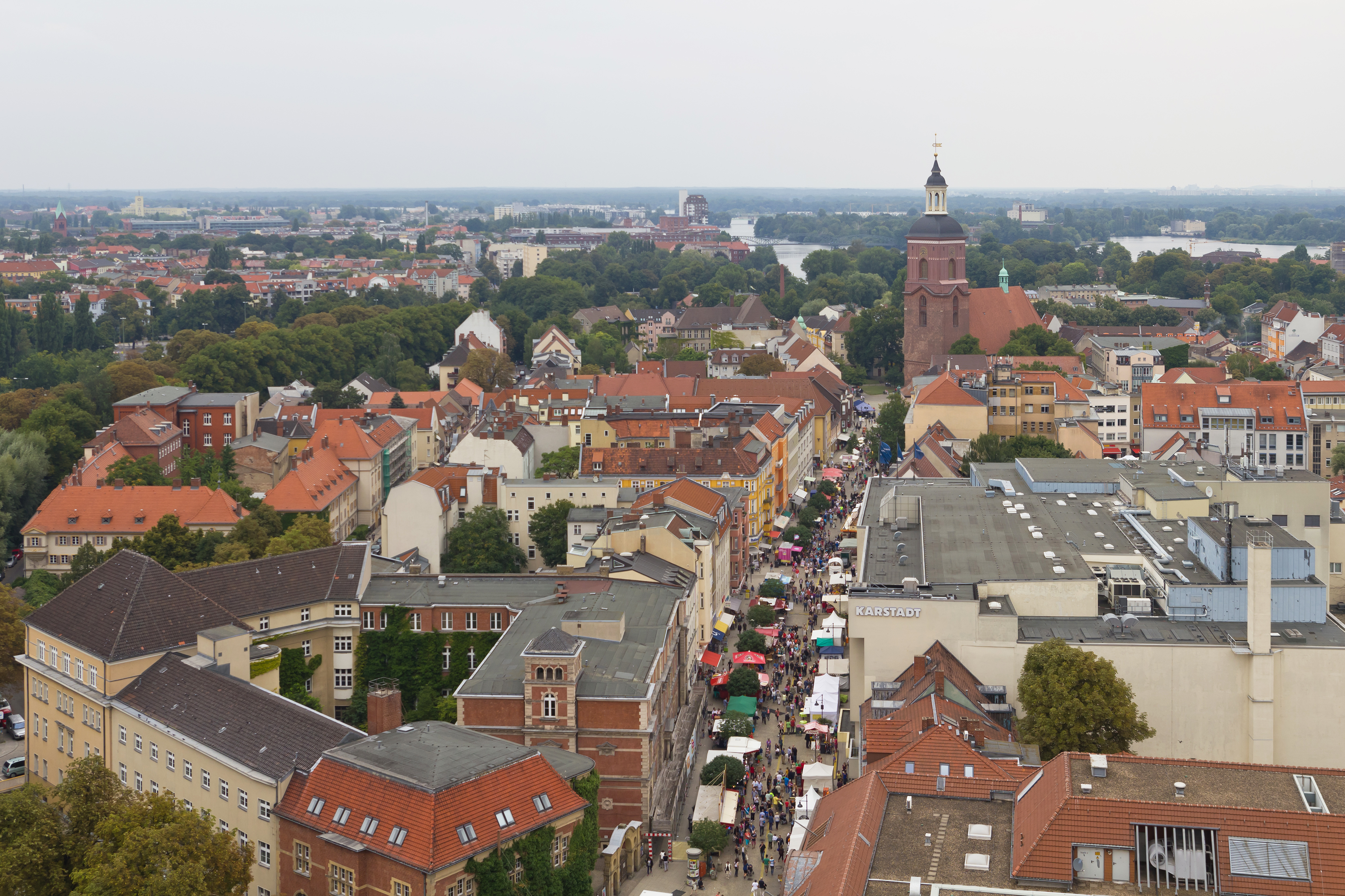 View from the tower of Spandau town hall, Berlin